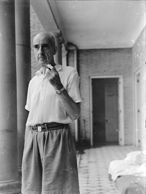 British Pacific Fleet 1944-1945 Ex-Vice Chancellor of the former Hong Kong University, Mr D J Sloss, acted as Chief of the Internees' Mail Censorship Department during the occupation of Hong Kong. Here, Mr Sloss is seen on the balcony of the Colonial Secretary's Office after having given the first free press conference to Chinese and English newspaper correspondents immediately following the landing of British marines from the Task Force, which entered Vistoria Harbour on Thursday 30th August 1945. Mr Sloss and his colleagues hope to restart the University as soon as possible.